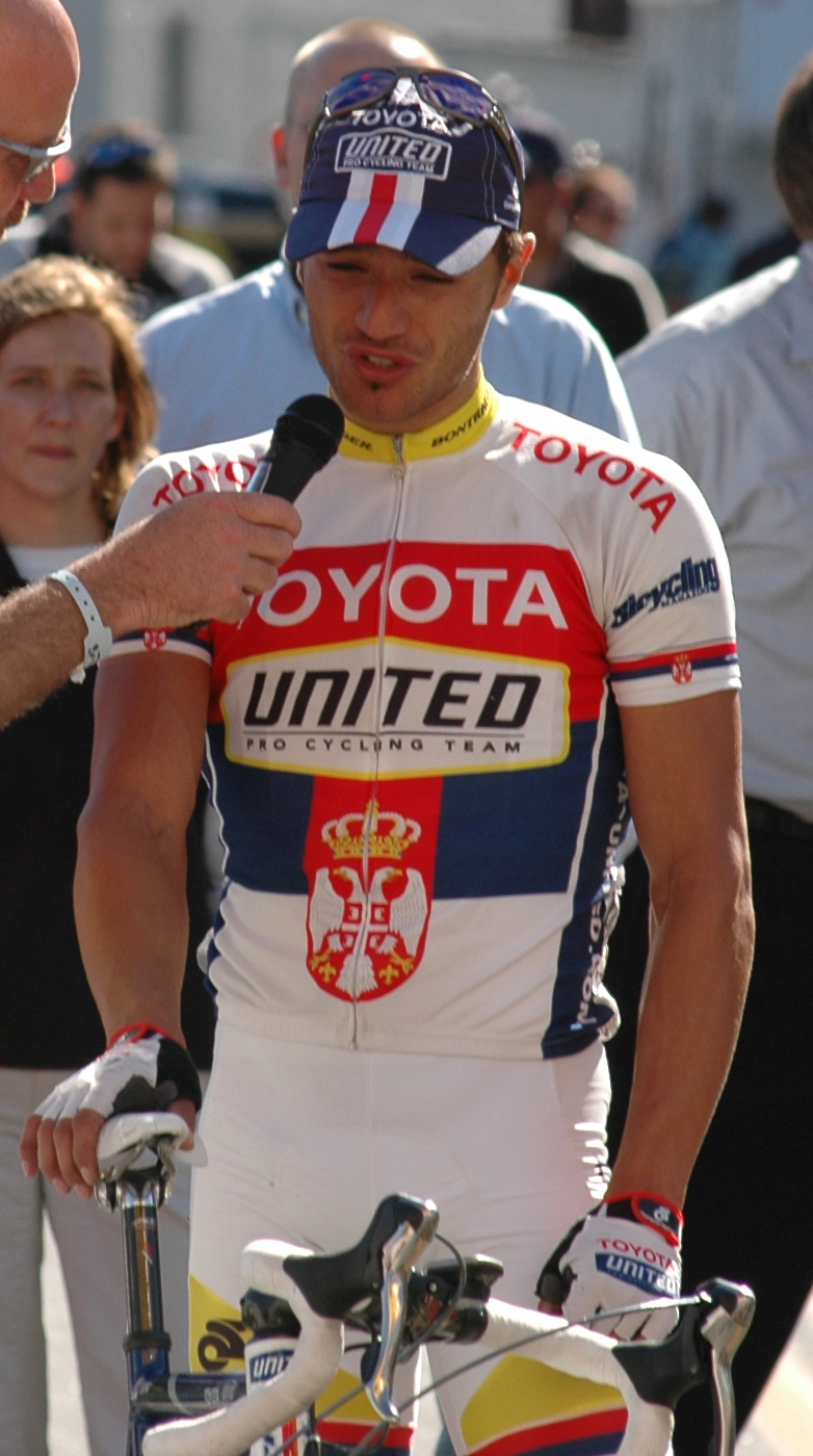 Ivan Stević (2007 Tour of Georgia)